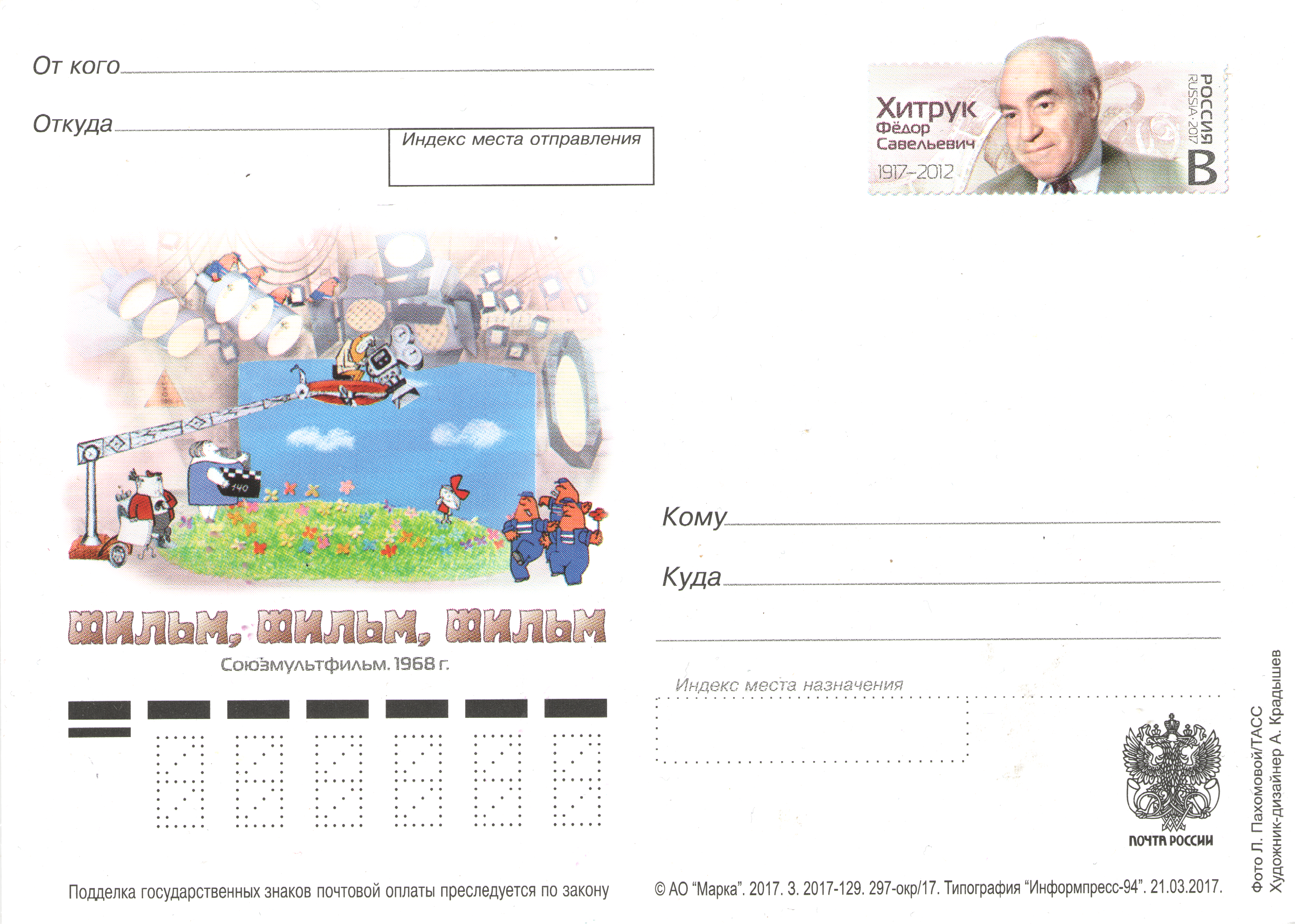 Russian postal card of Soyuzmultfilm with the Fyodor Savyelyevich Hitruk B stamp.